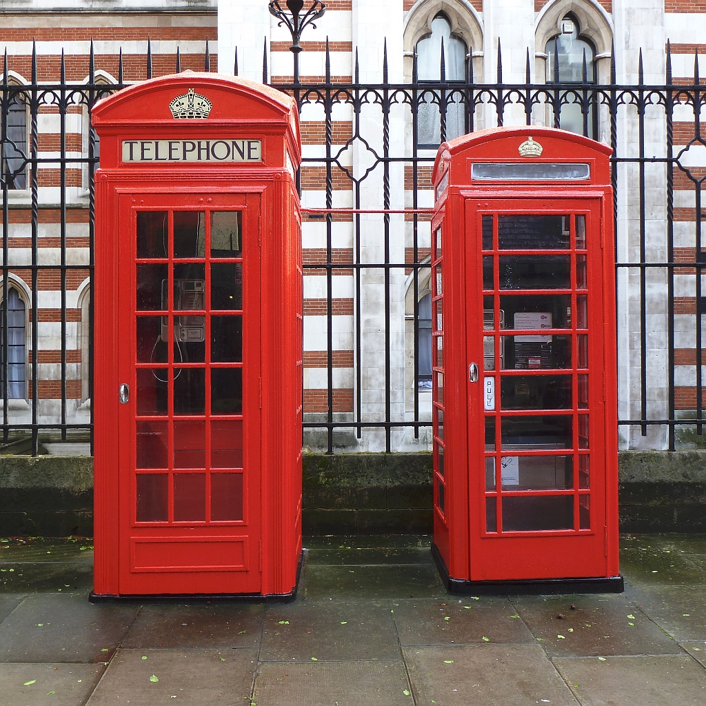 Telefonzellen an den Royal Courts of Justice im Bell Yard, London, England.